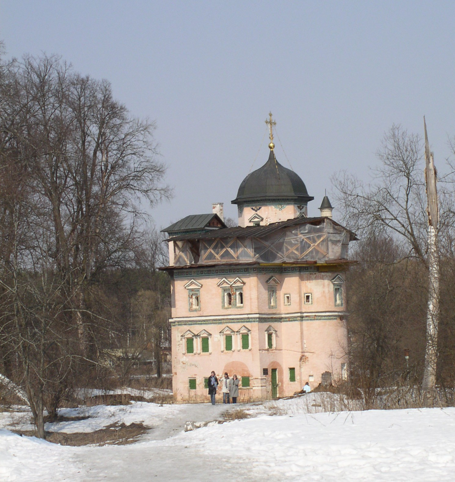 Patriarch Nikon's abode in New jerusalem monastery, Istra, Russia